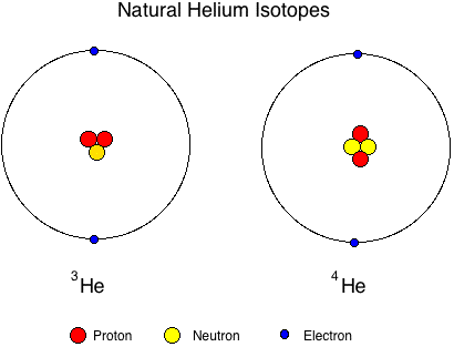 The composition of Helium-3 and Helium-4 atoms in the comparison